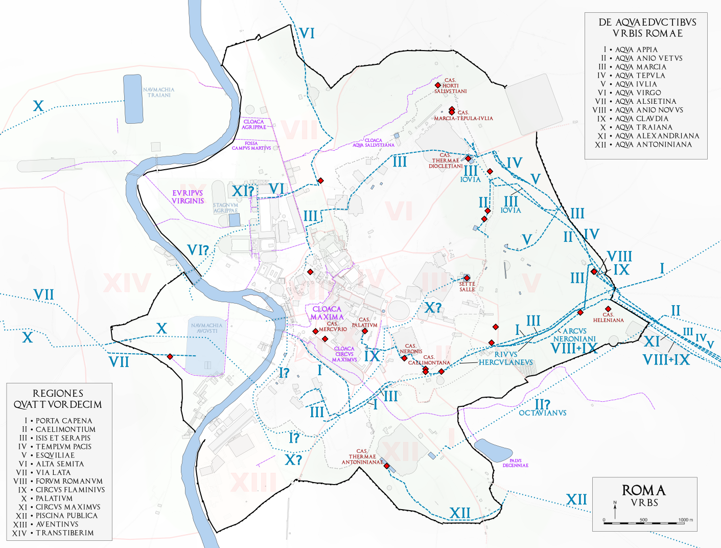 Map of ancient Rome showing the water distribution system via the aqueducts and castella and the sewage system from the foundation of the city until the fourth century AD. Map based after Rodolfo Lanciani, Forma Urbis, completed and corrected with the most recent archaeological proposals and discoveries.